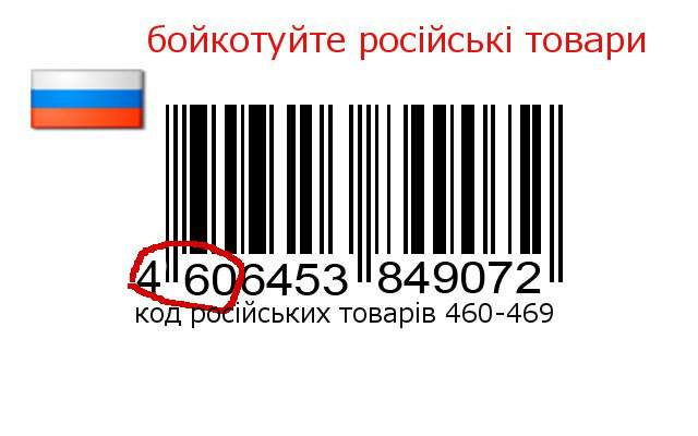 Banner: "boycott russian goods"